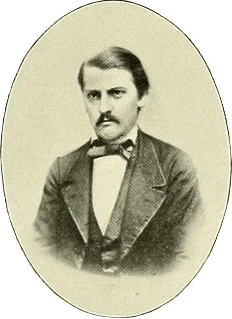 Portrait of the botanist Rudolpf Friedrich C. von Uechtritz